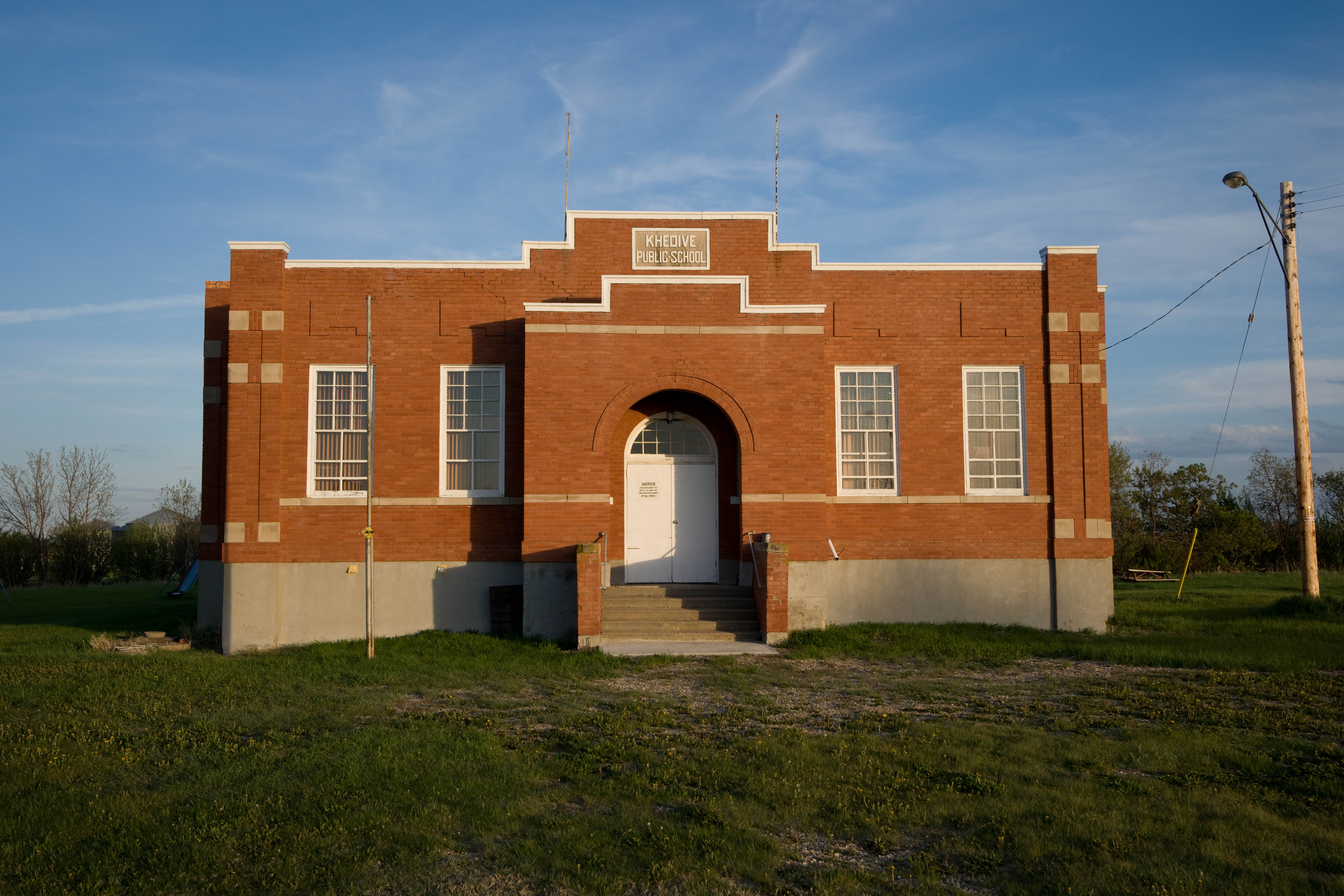 From